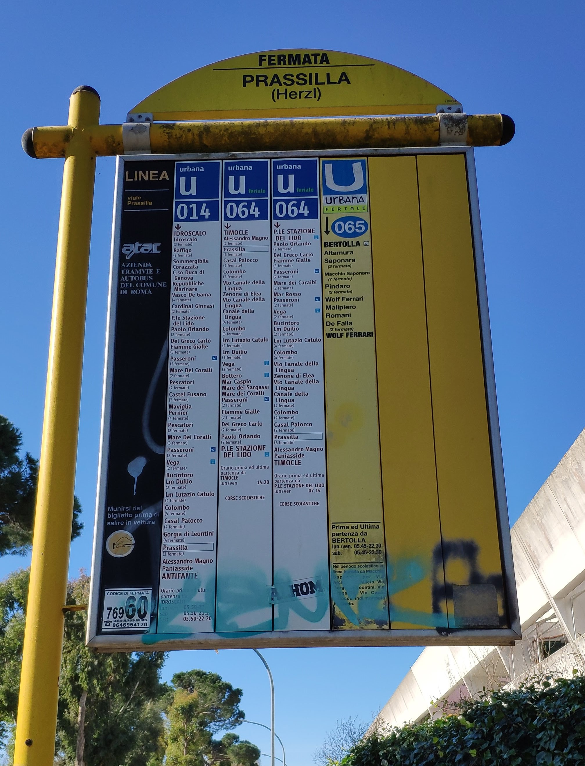 Prassilla - Herzl bus stop in Rome